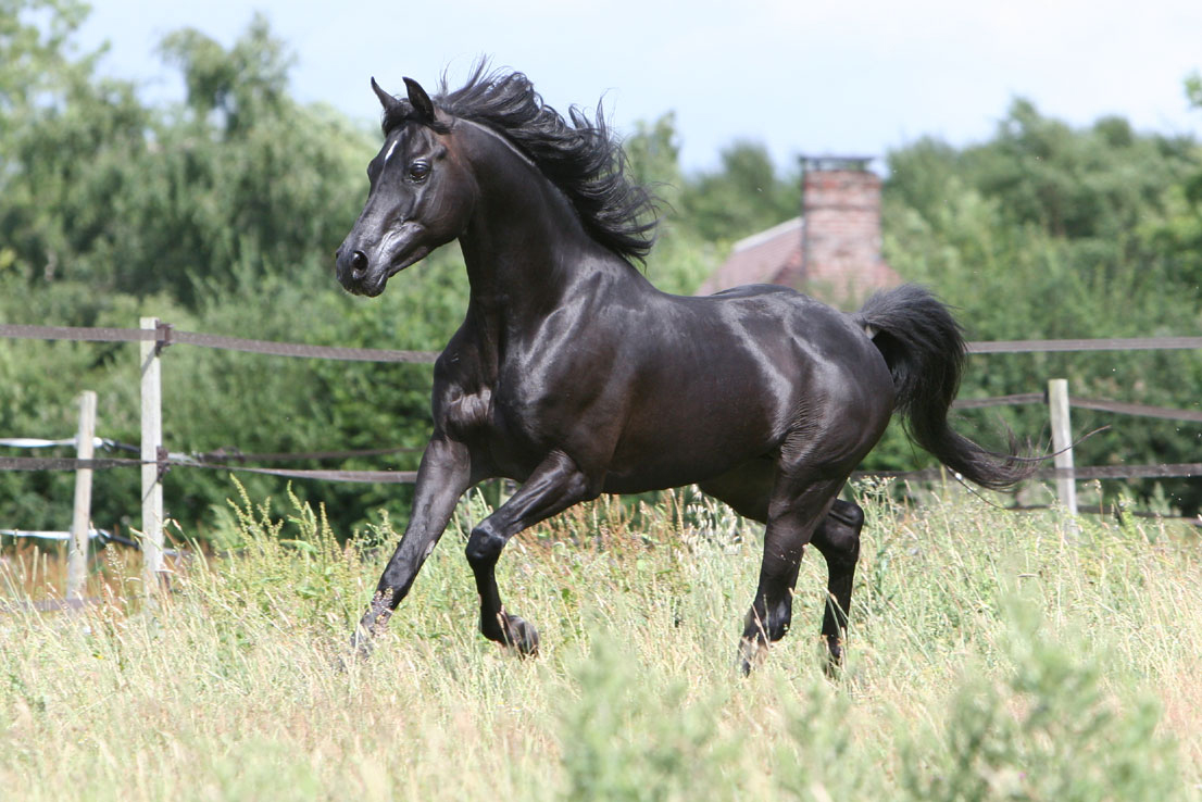 Straight Egyptian Sheykh Obeyd, Heirloom Homozygous Black arabian stallion ZARIFE EL MANSOUR. Owned in the past by the late Jay Gormley in USA, he's now located in FRANCE and owned by Sinoan Arabians.